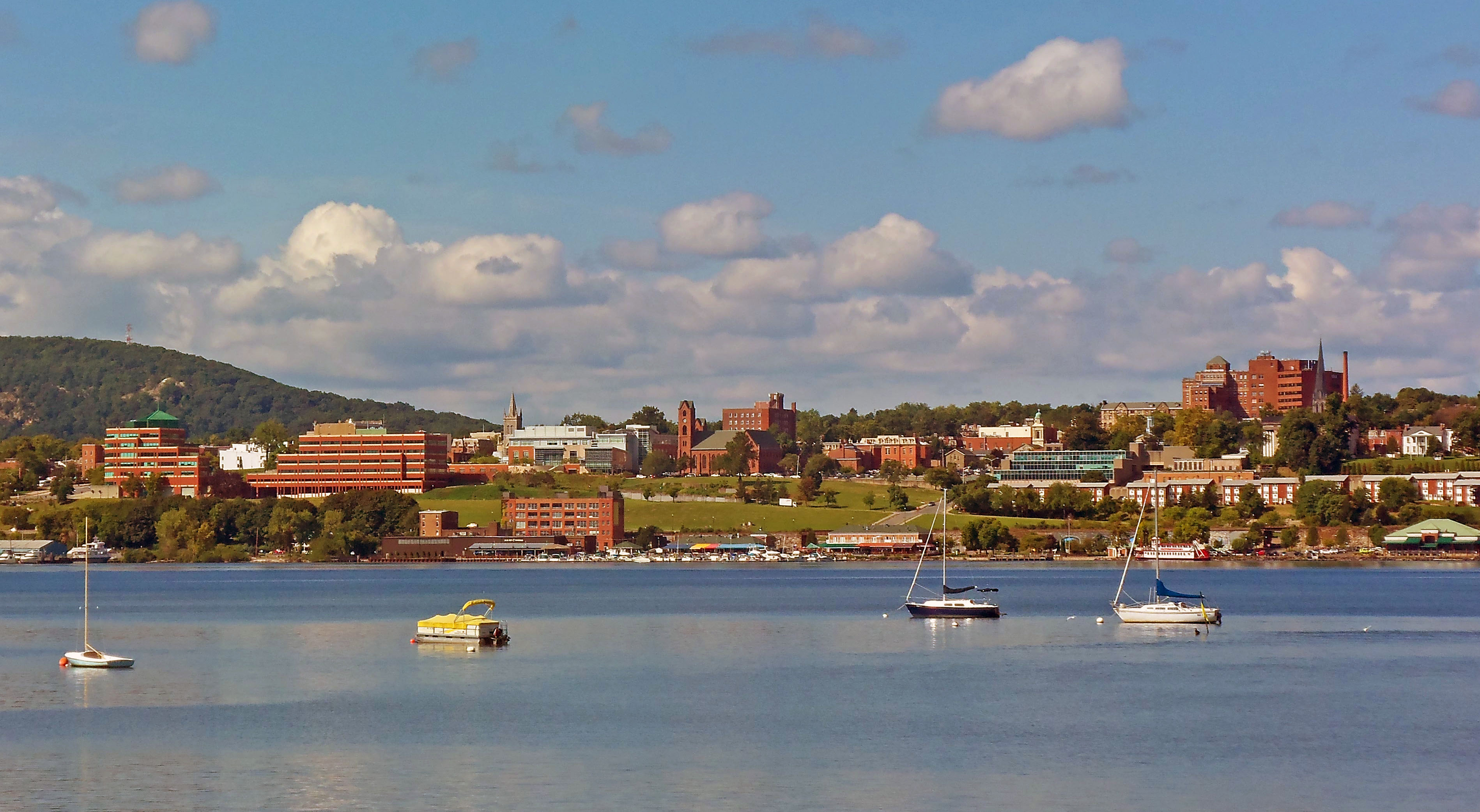 View of central Newburgh, NY, from the Beacon train station across the Hudson River